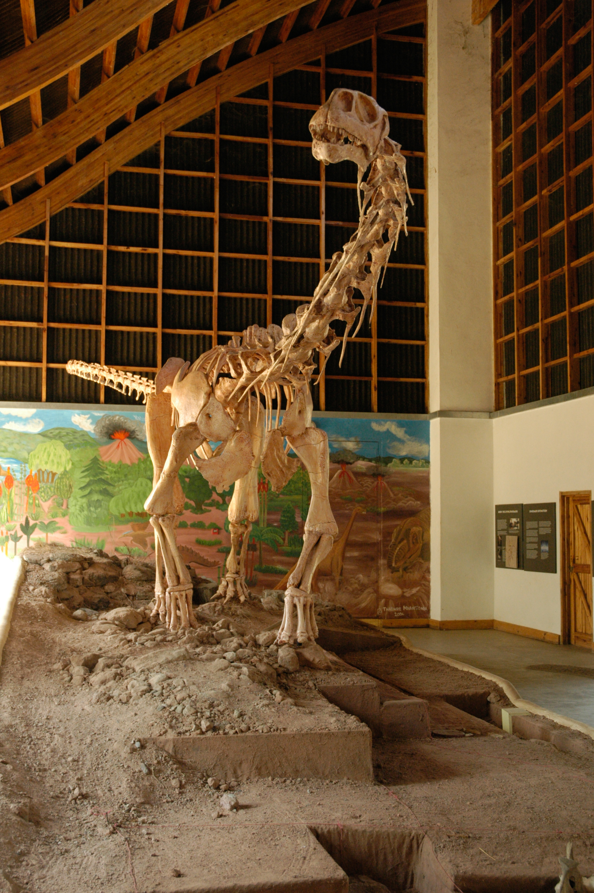 Malawisaurus (Malawisaurus dixeyi) at the museum in Karonga, Malawi.